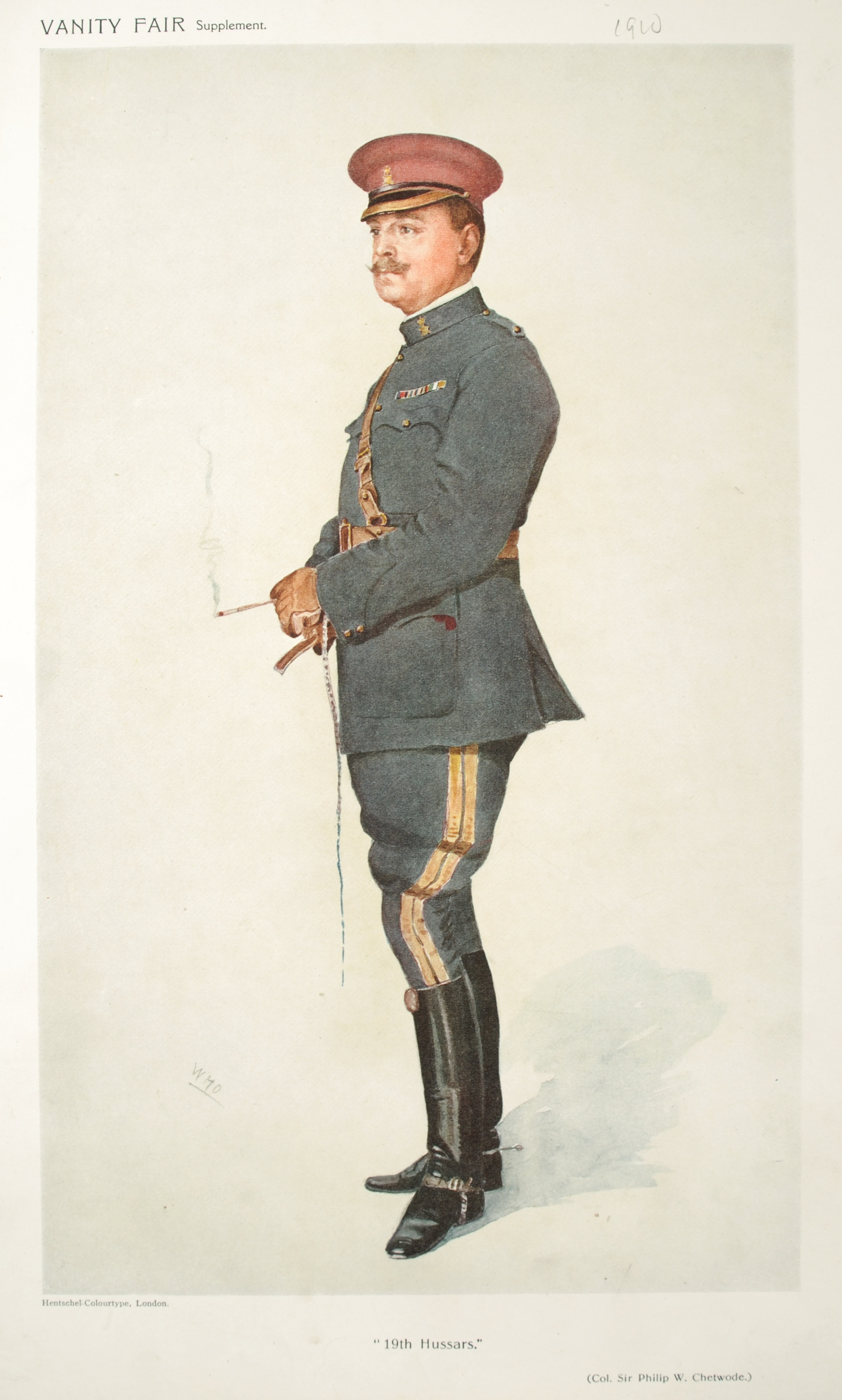 Caricature of Colonel Sir Philip Chetwode. Caption read "19th Hussars".